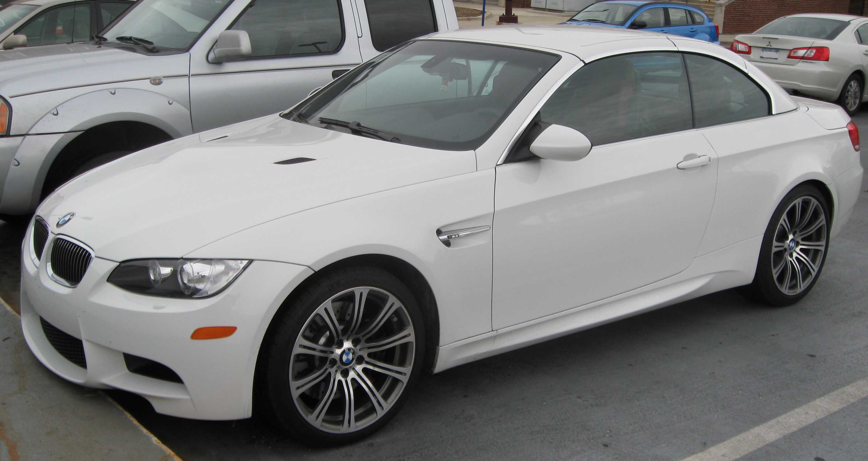 2009 BMW M3 photographed in College Park, Maryland, USA.